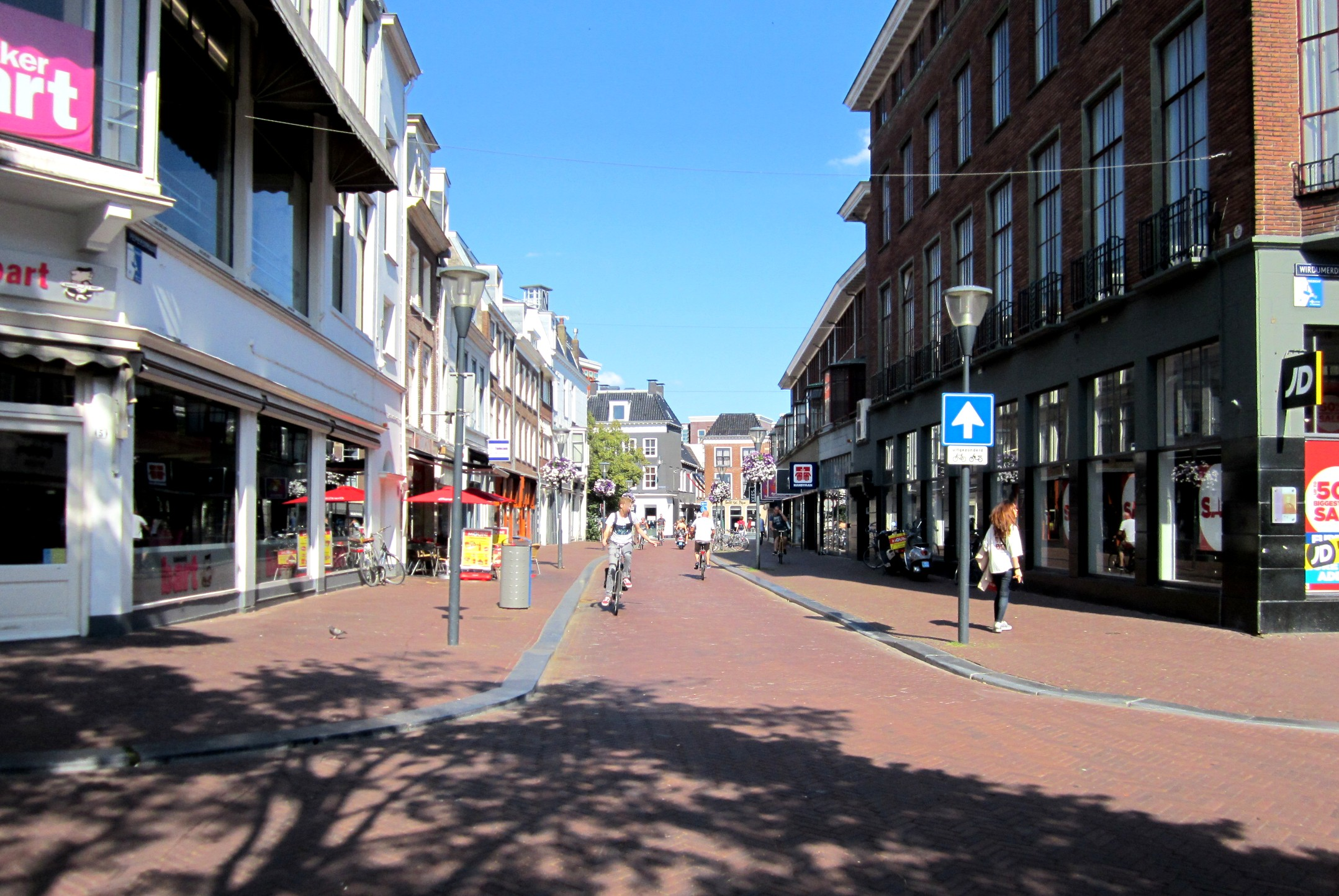 Peperstraat (Frisian: Piperstrjitte), a street in Leeuwarden/Ljouwert, Friesland, the Netherlands.